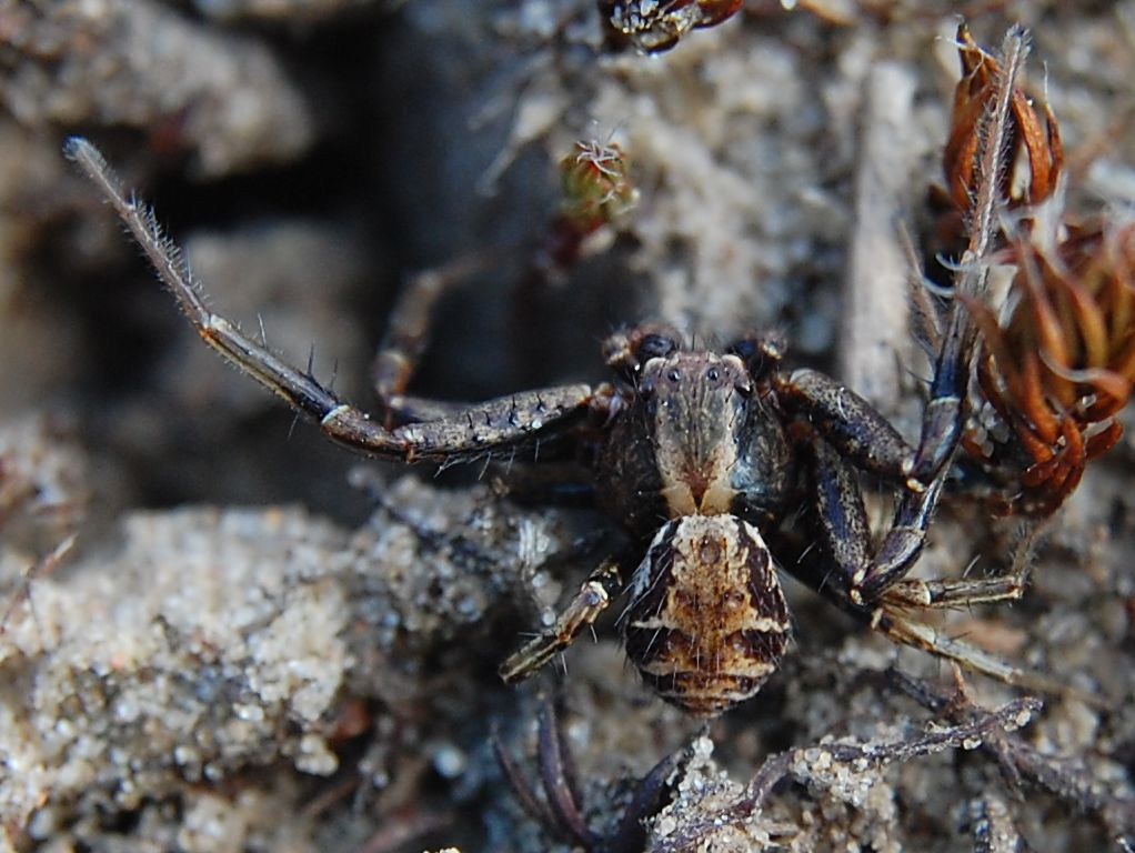 Xysticus kochi, male. Determination by K.-H. Kielhorn, Berlin